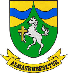 Coat of arms of Almáskeresztúr, Hungary